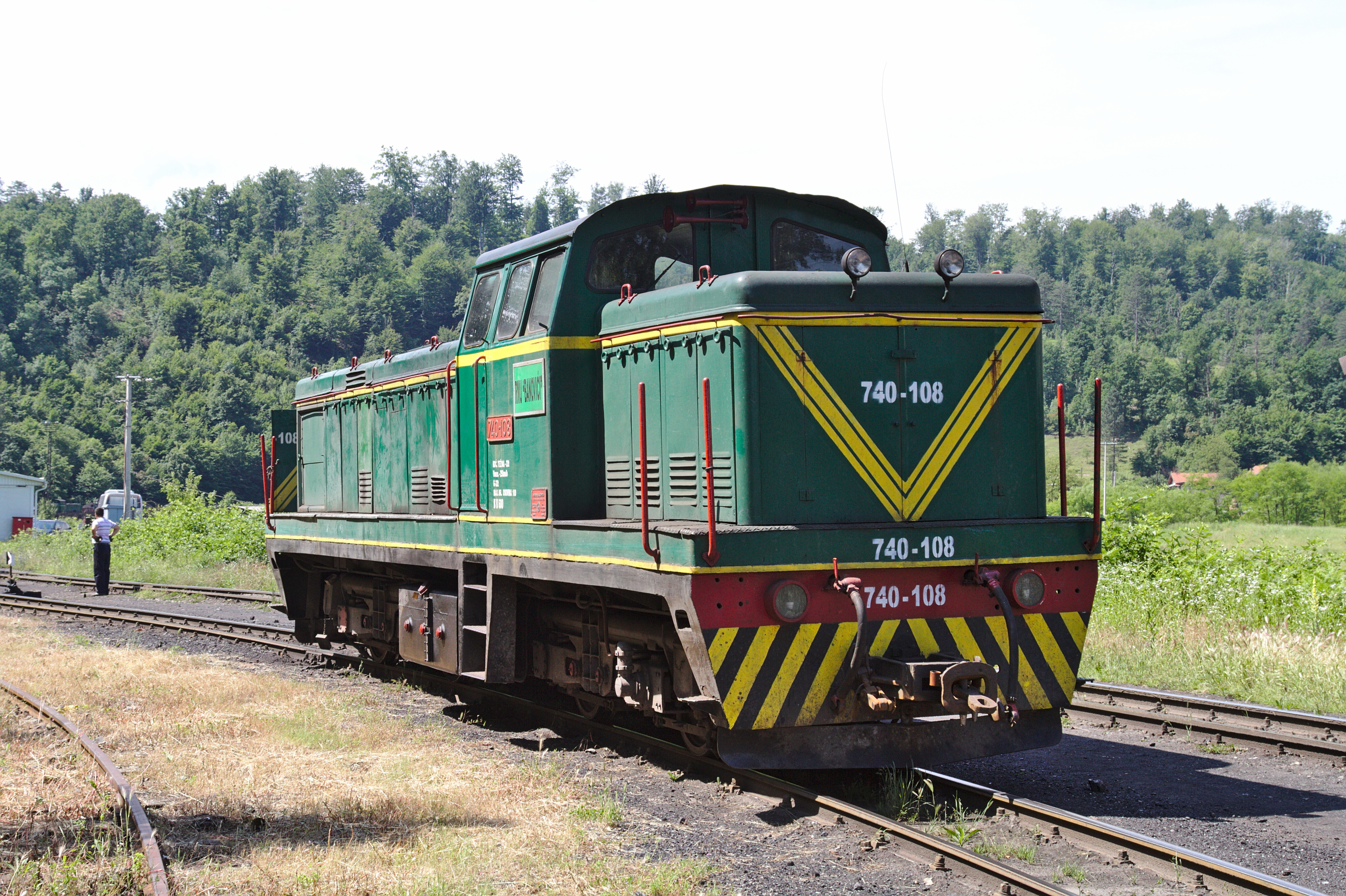 740-008 at Oskova station.